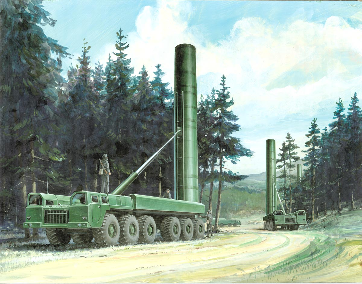 The Soviets deployed hundreds of mobile, SS-20 intermediate force missile launchers in the 1980s--with three nuclear warheads on each missile and reloads for each launcher. These were targeted against Western Europe, China, and Japan. The highly accurate SS-20 had great mobility when field deployed to ensure survivability.